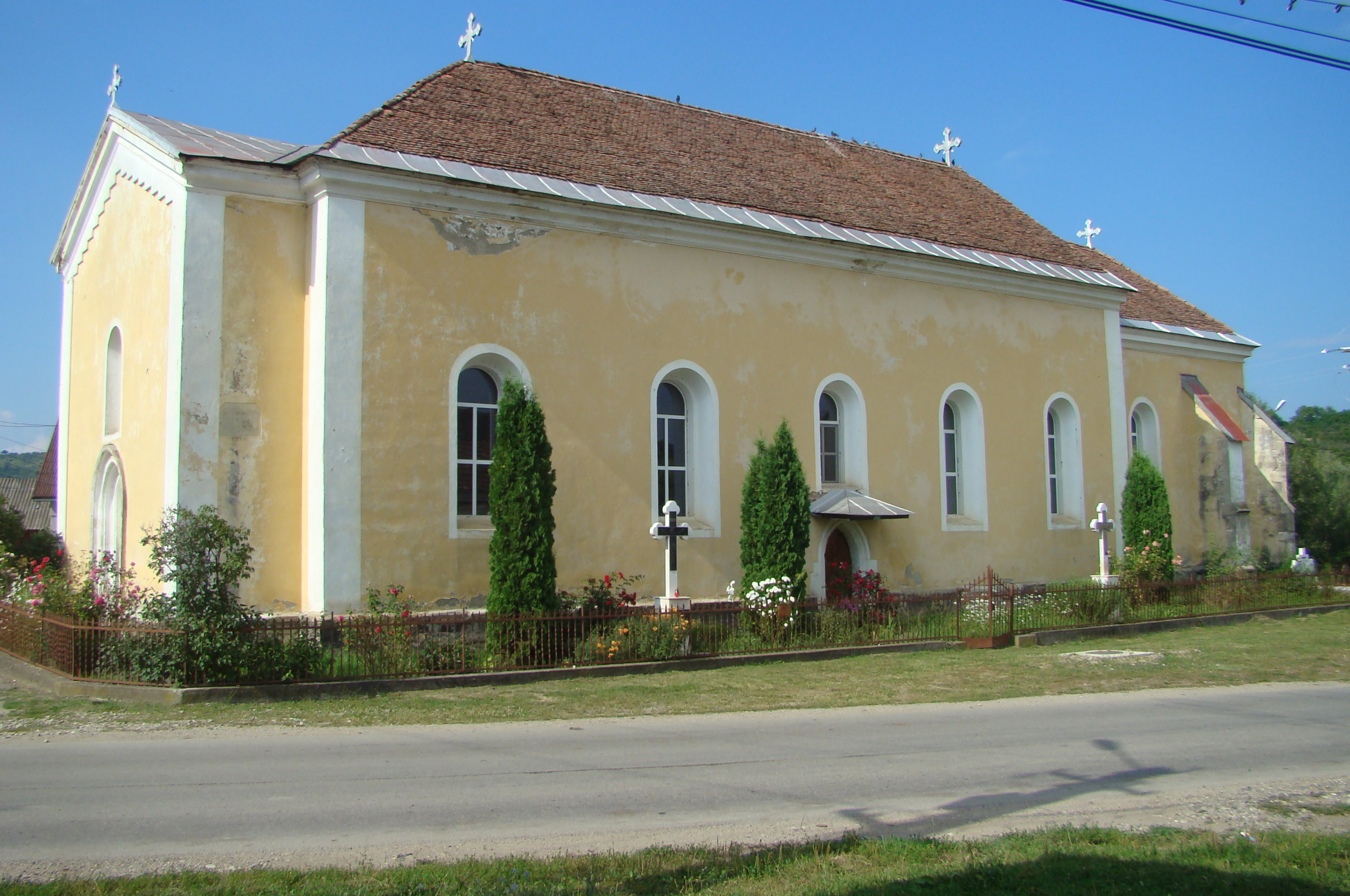 Lutheran church in Petriș, Bistrița-Năsăud county, Romania